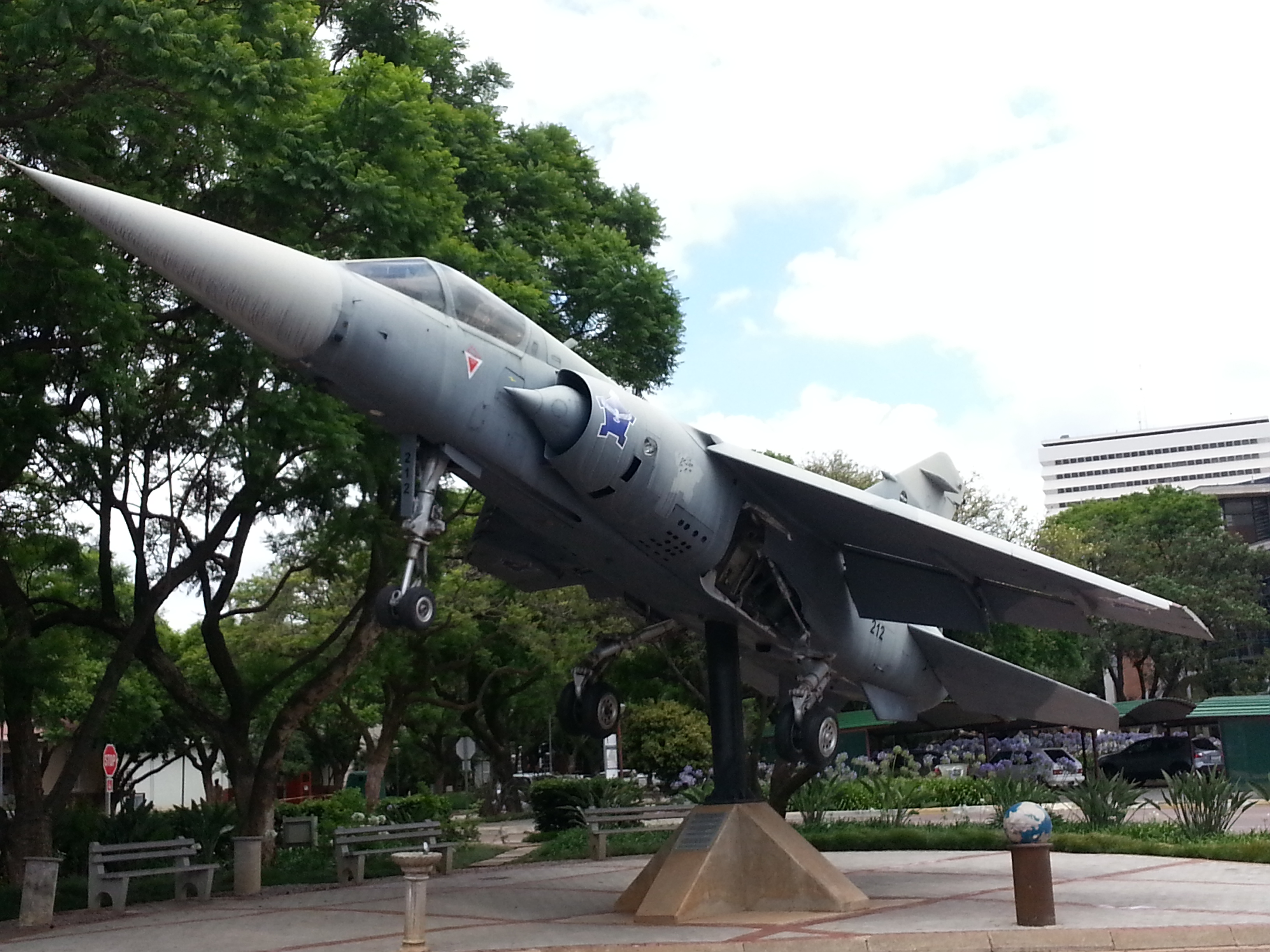 Mirage F1 on display outside Sci-Enza building University of Pretoria's main campus